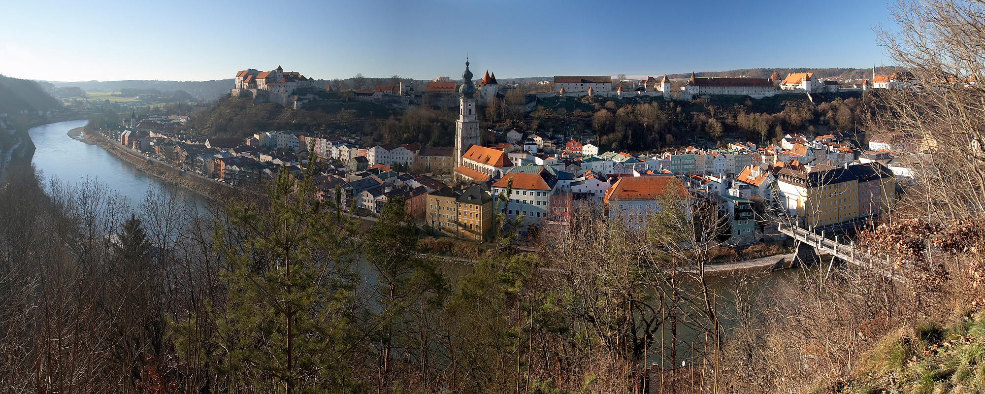 Burghausen: Old town